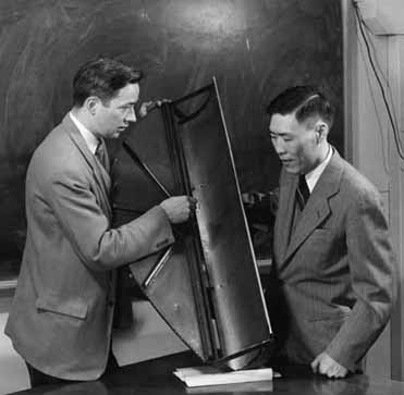 Lan Jen Chu, who was on the staff of the MIT Radiation Laboratory from 1942 to 1946 and a faculty member in Electrical Engineering from 1947 to 1973.